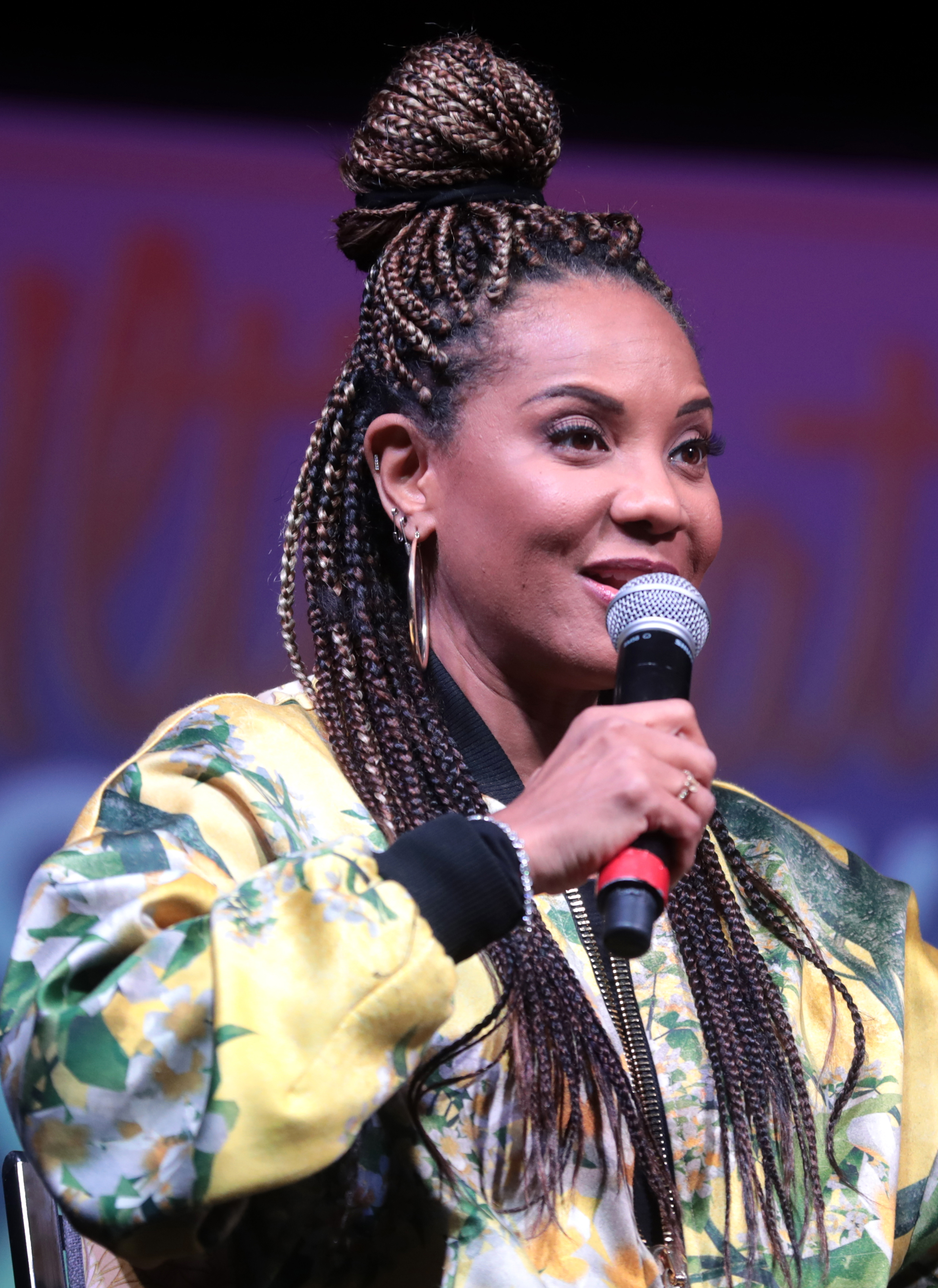 MC Lyte speaking at an event in Phoenix, Arizona.